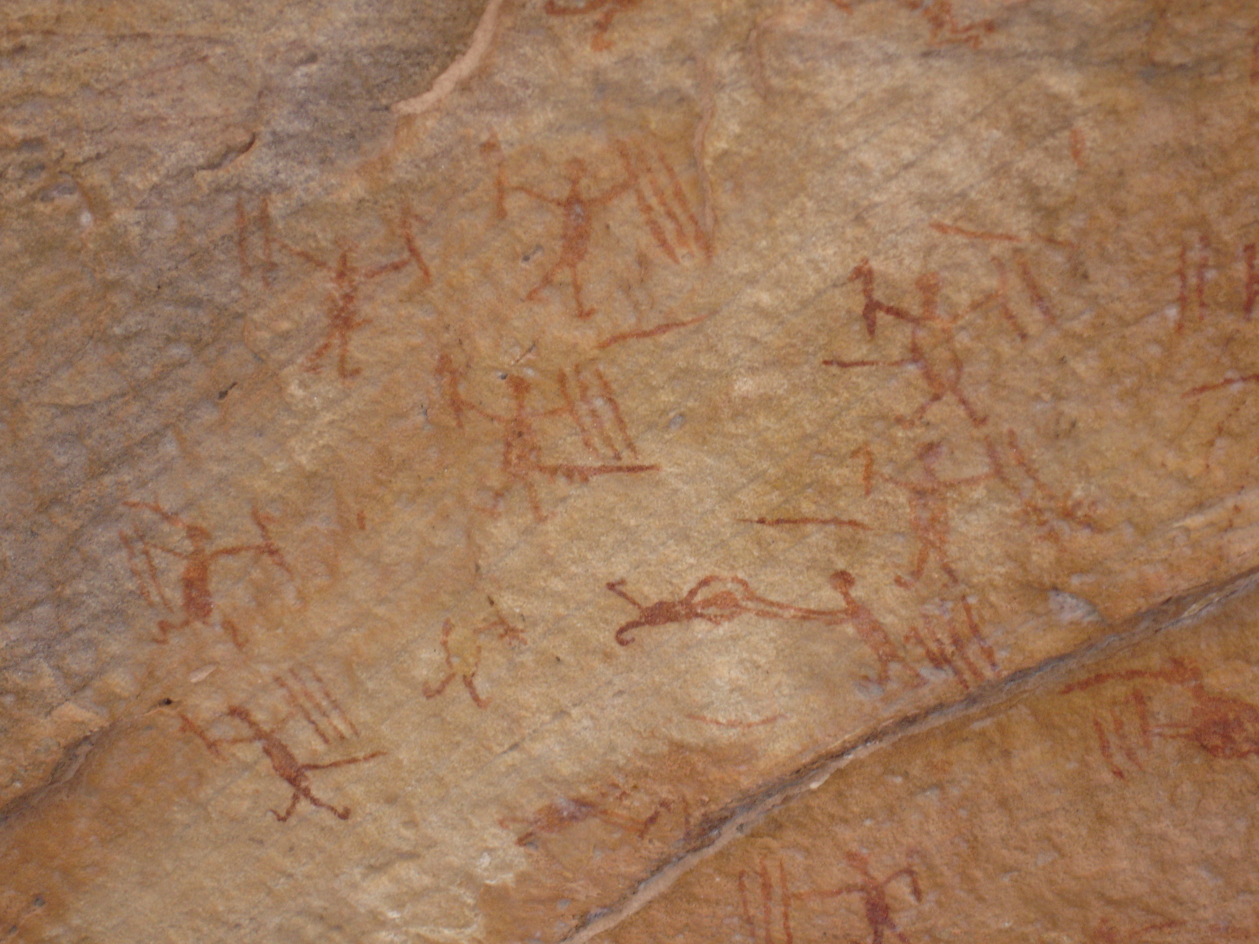 War scene (?) painting